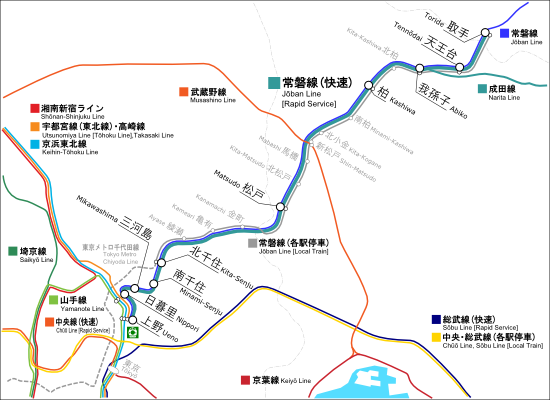 Map of JR Joban Rapid Line